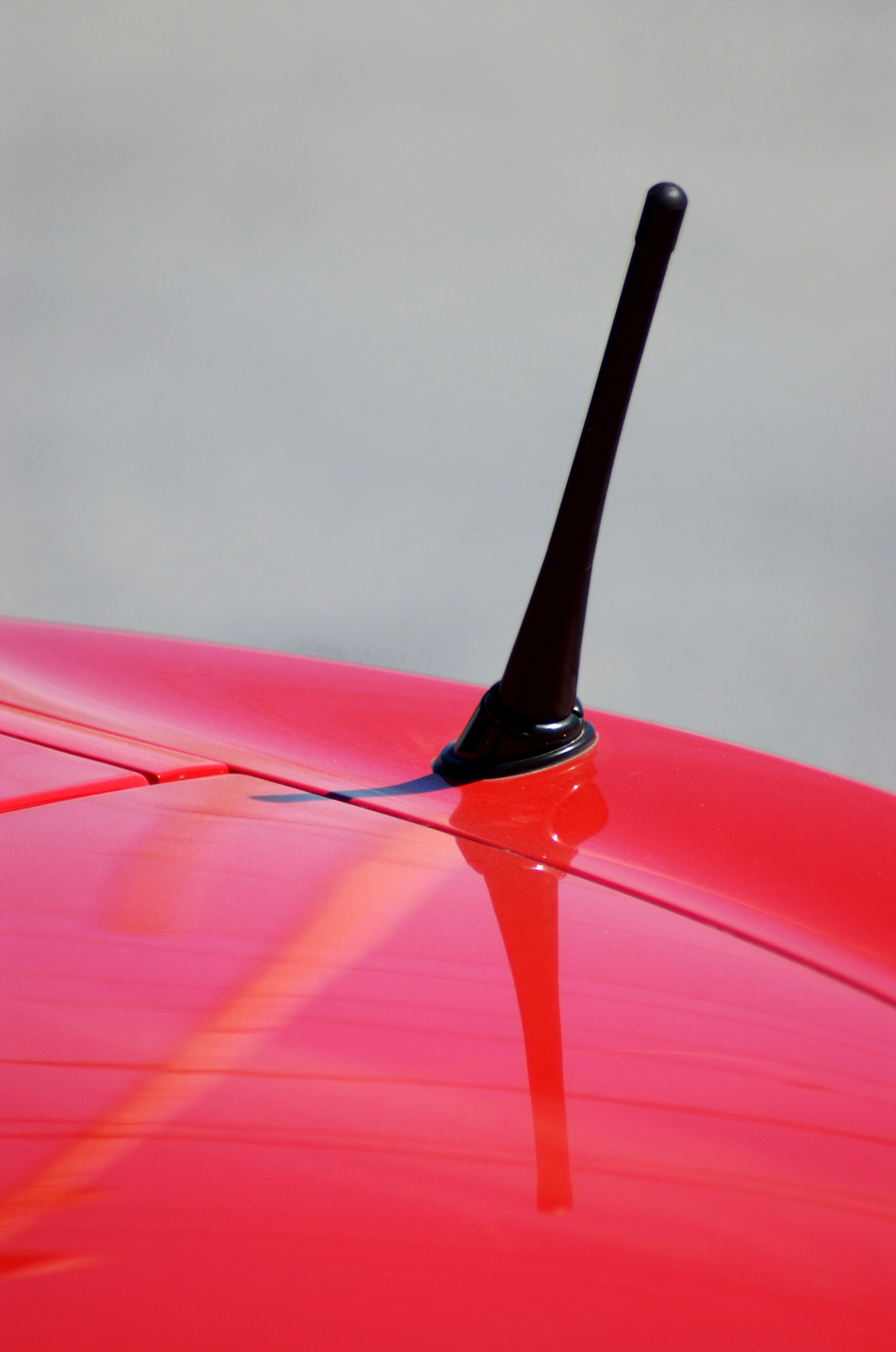 Abstract Photo of radio antenna on a red convertible car